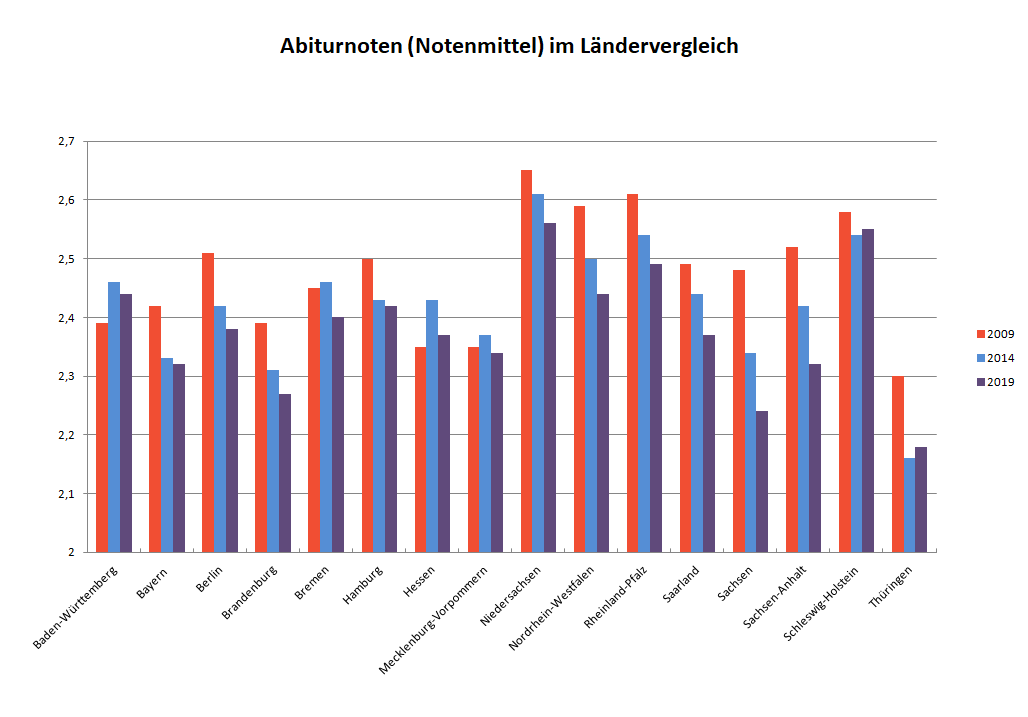 Average final grades (Abitur) of german highschool absolvents by state